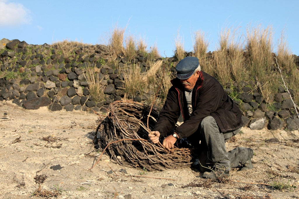 In order to protect the vines from the strong winds, there is a special pruning system in Santorini. Each vine is twisted in a characteristic basket-shape, which the locals call it “kalathi” or, if it is a big old one, “niabelo”. Mpelas and the niabelo